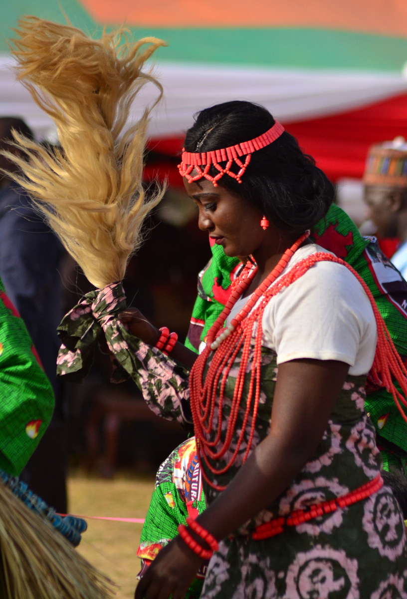 A woman in cultural attire is part of a parade during Nawhai Festival in Bokkos LGA, of Plateau State, Nigeria This is an image with the theme "Play" from: Nigeria